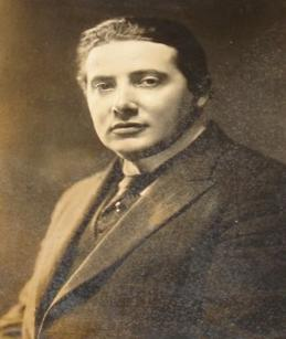 Antoni Torelló i Ros (Sant Sadurní d'Anoia, 30 June 1884 – Los Angeles, 1960), Catalan Double Bass that performed in the United States